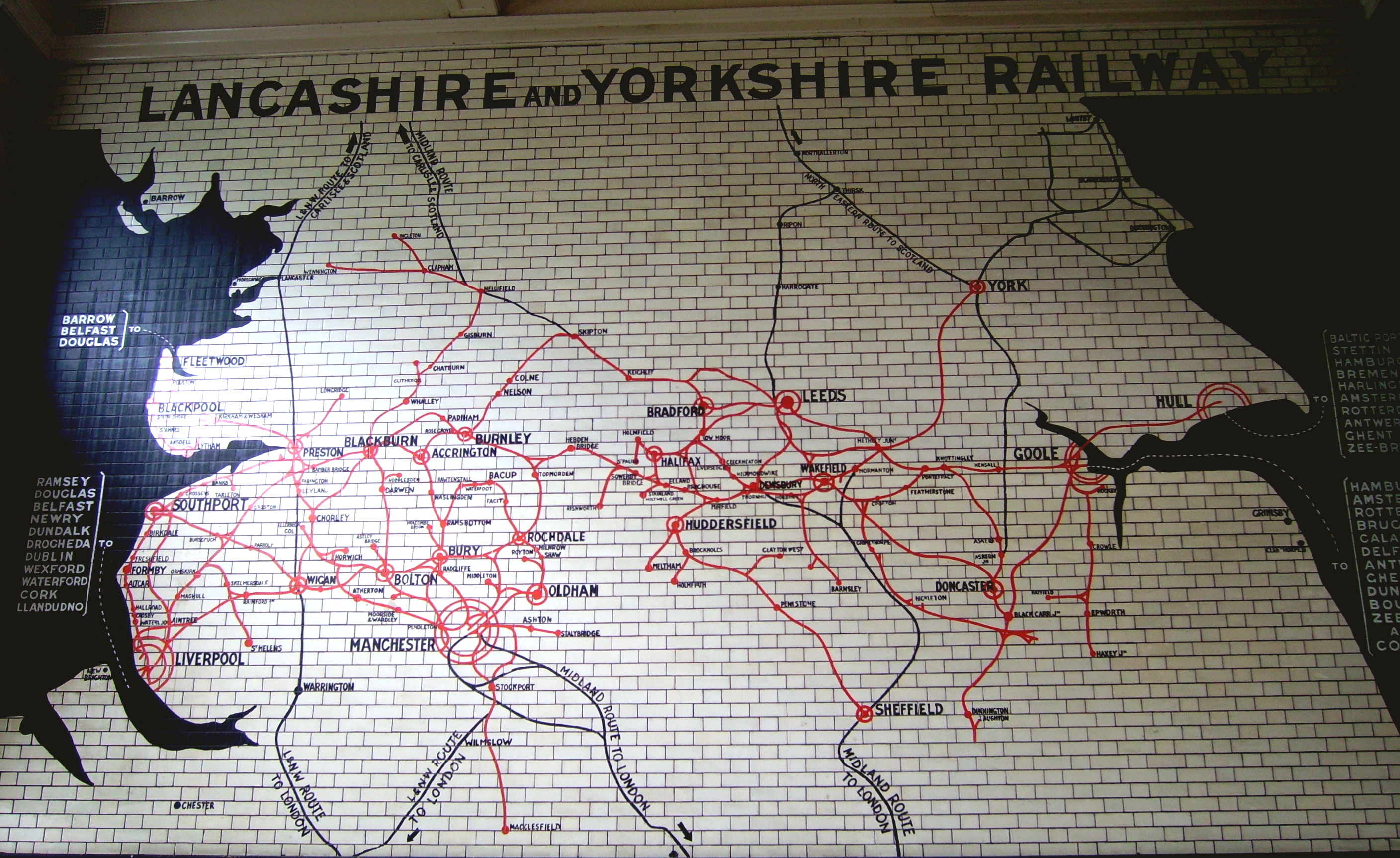 Created by TorstenGuise. Authors photograph of the Lancashire & Yorkshire Railways mural at Manchester Victoria